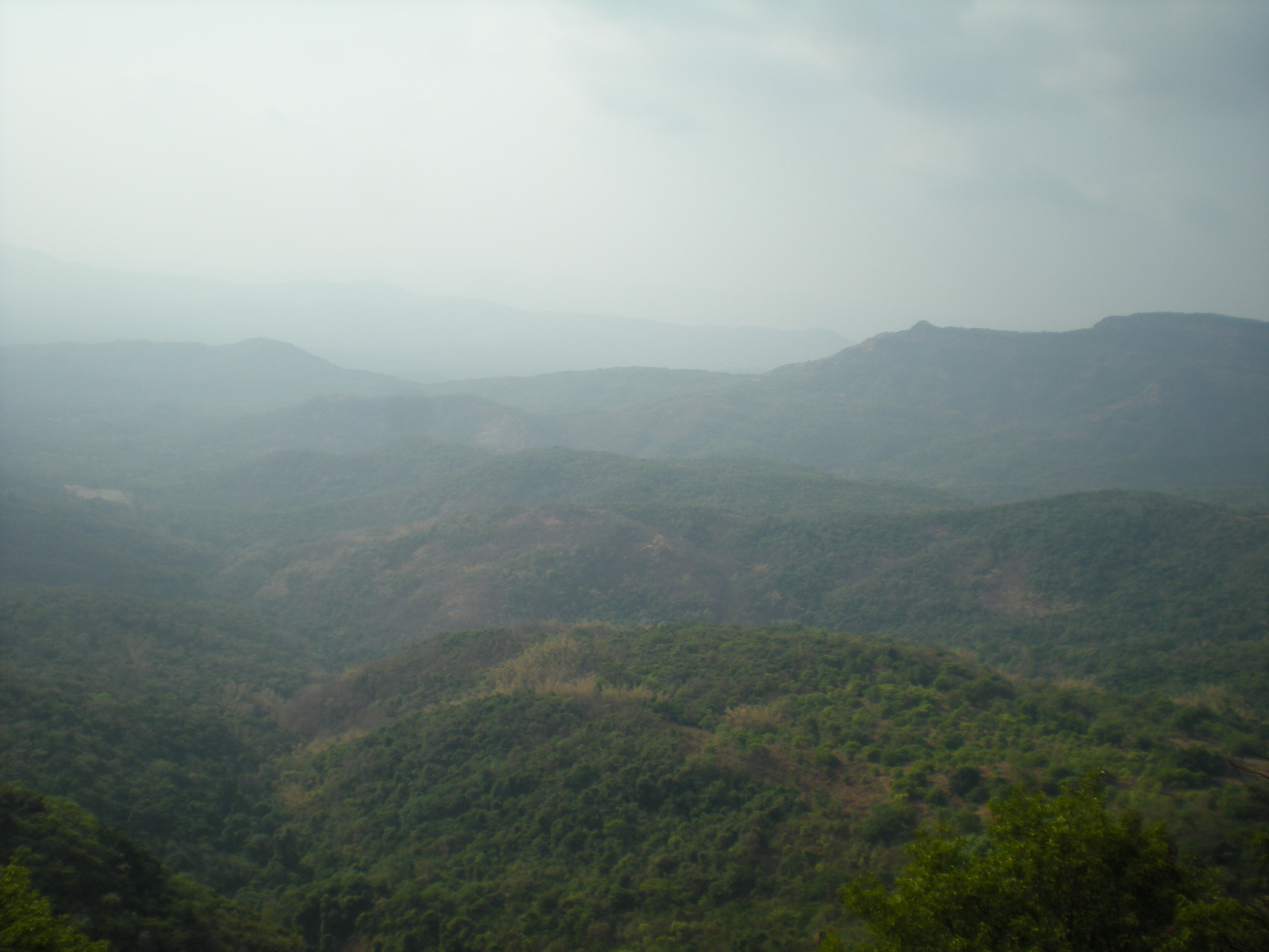 amboli